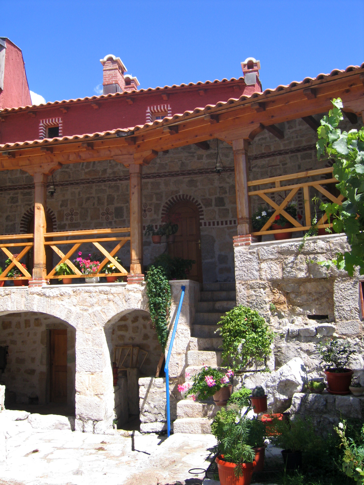 Atrium garden of Tvrdoš Monastery